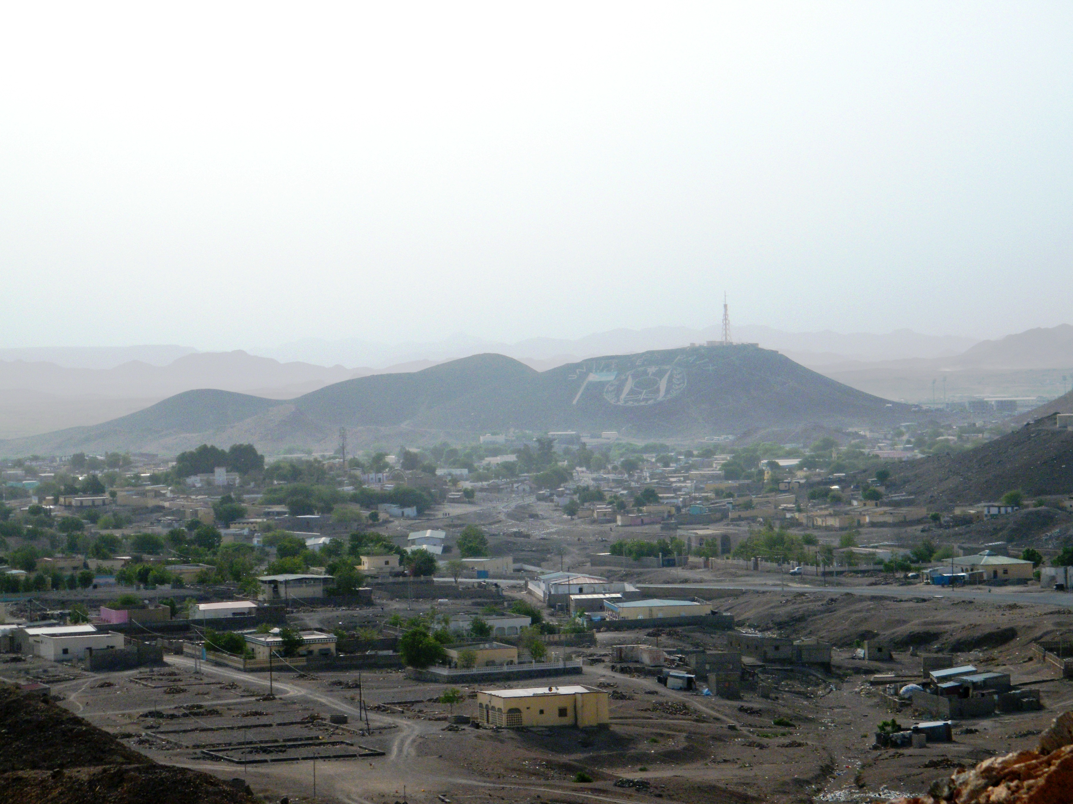 Photo Of Ali Sabieh in 2015